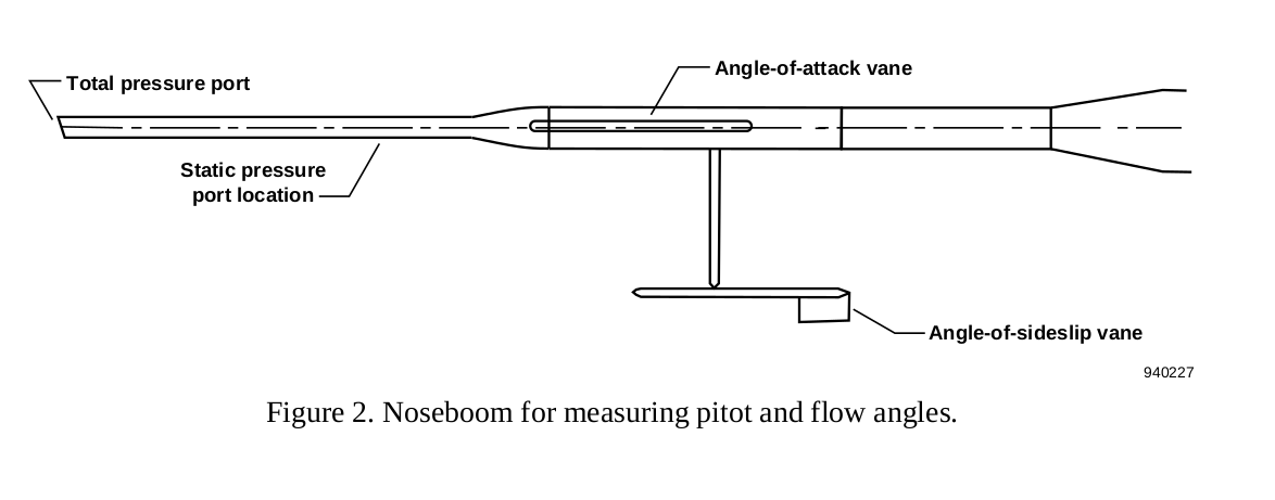 Noseboom for measuring pitot and flow angles